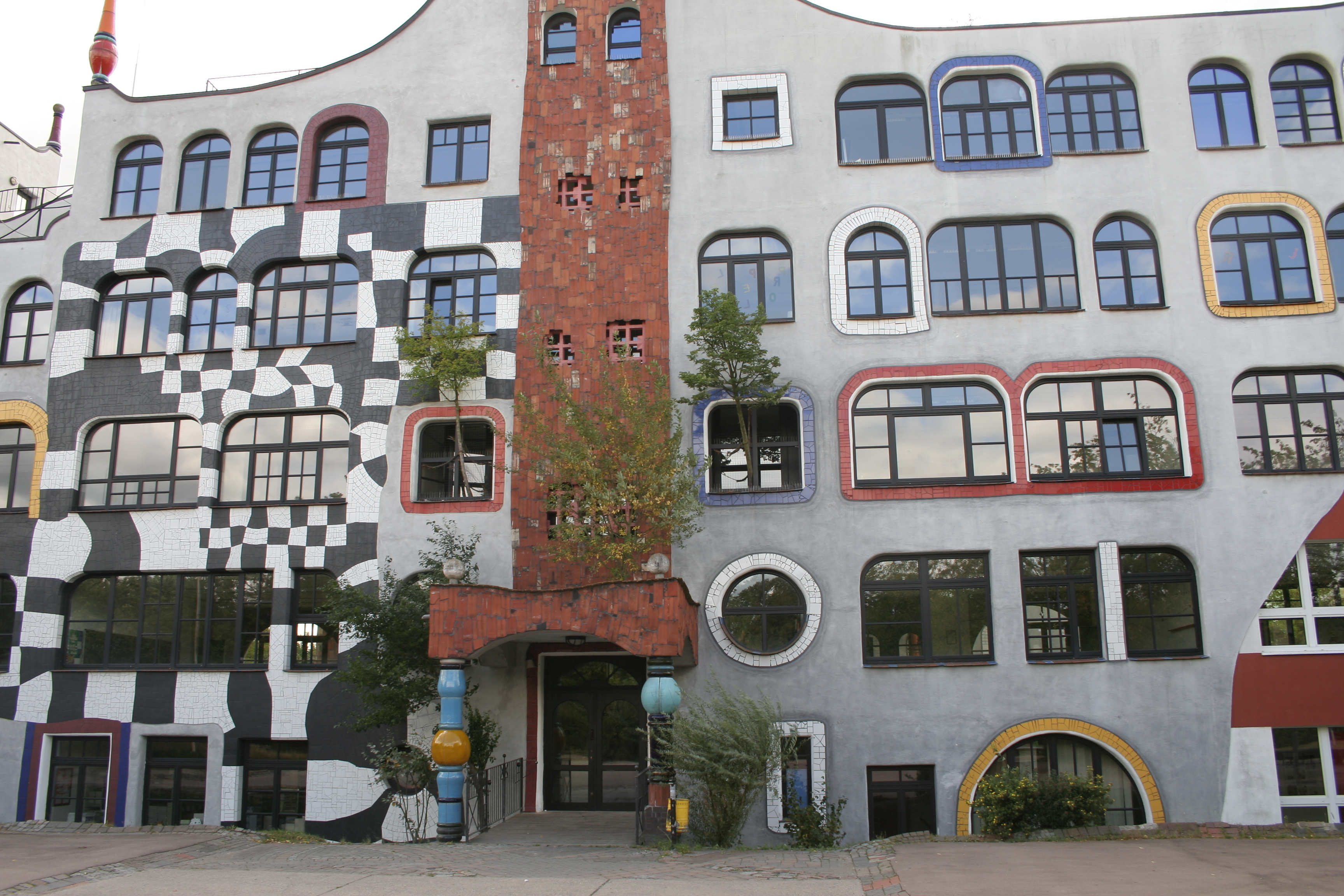 Hundertwasser School Wittenberg